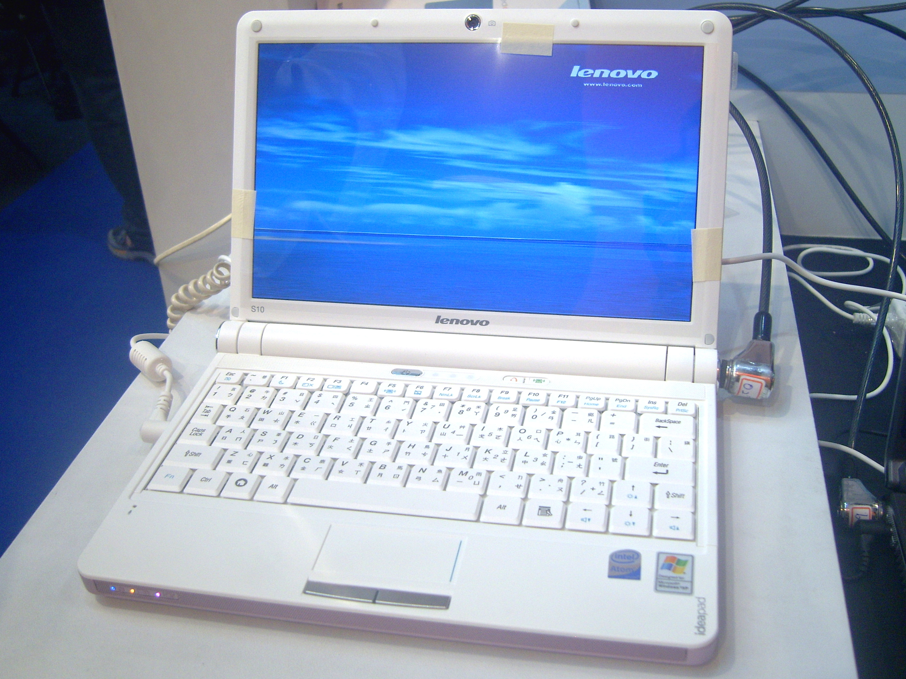 2008 Taipei IT Month - Lenovo Ideapad S10.